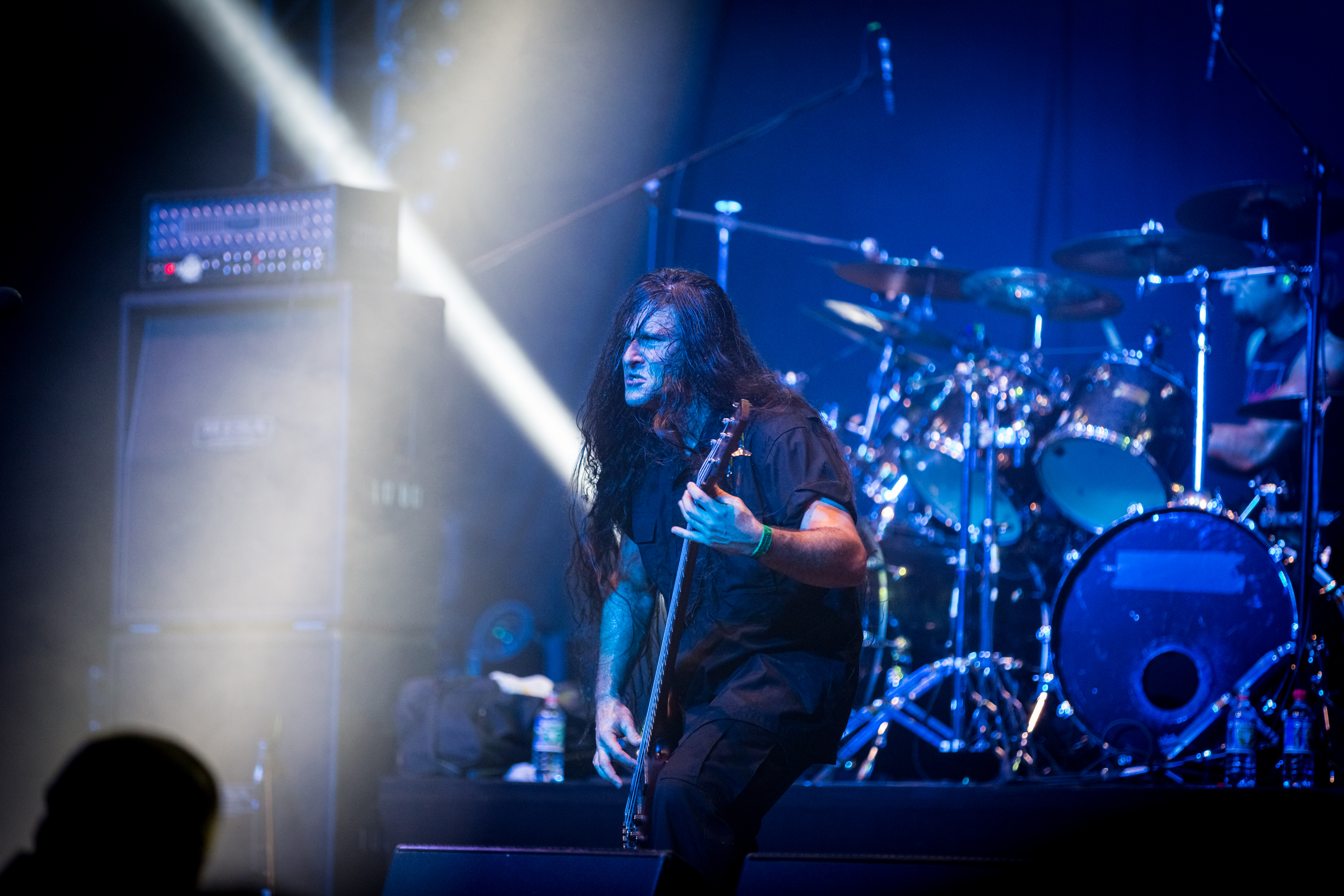 Immolation - Wacken Open Air 2016